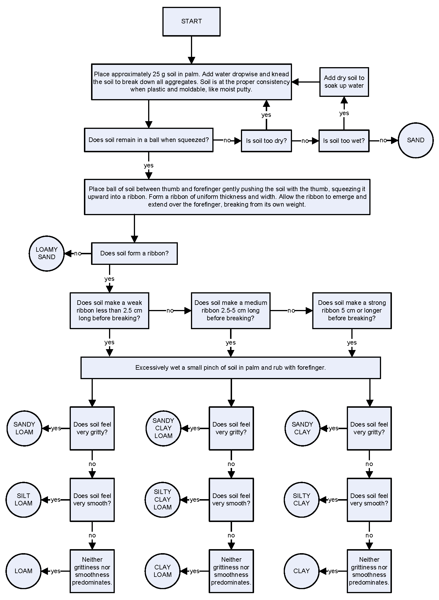 A flow chart used when determining soil texture by feel.